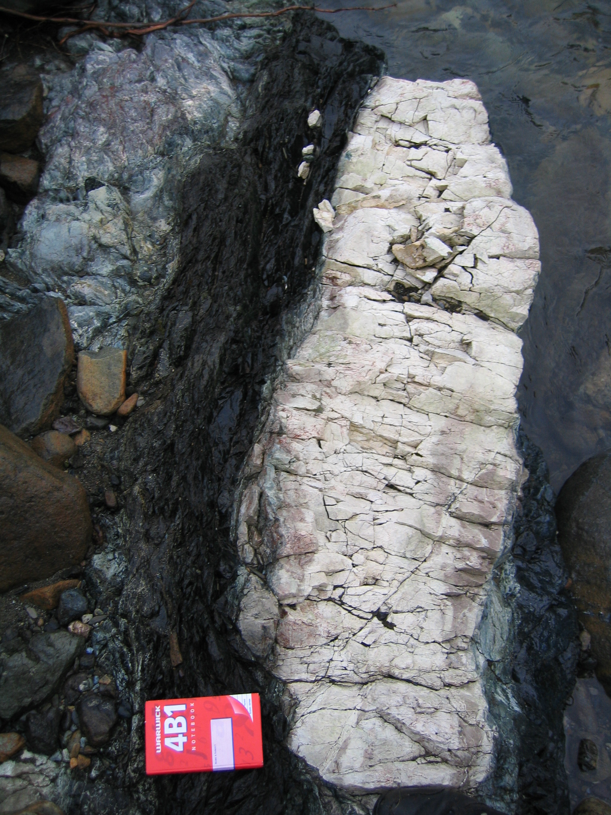 A metasomatised dyke (white) in serpentinite (green) in the Dun Mountian Ophiolite just north of the Red Hills, Nelson, New Zealand.